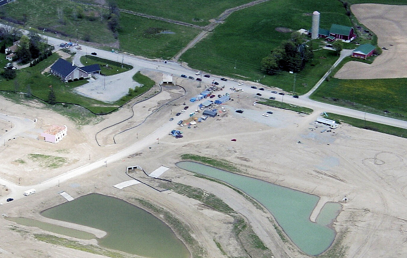 Six Nations occupation of Douglas Creek Estates, Caledonia